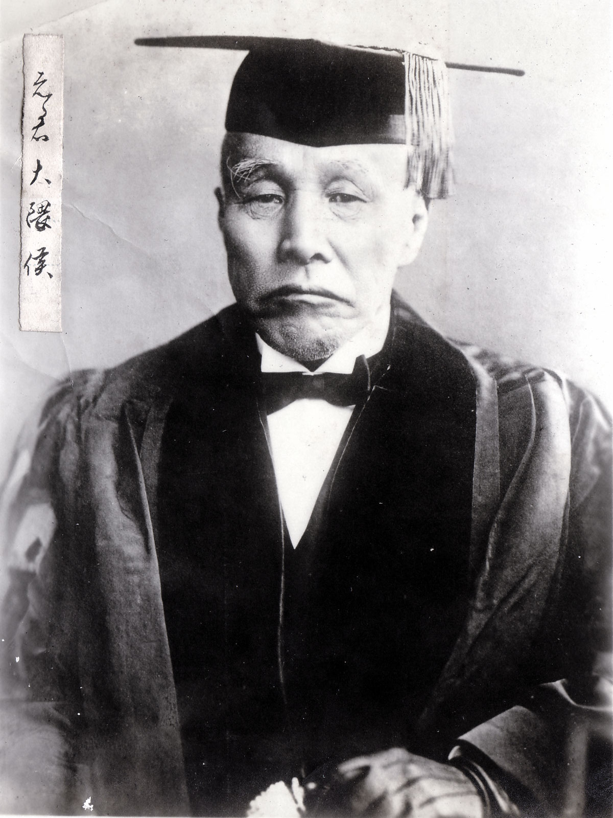 Shigenobu Ōkuma (大隈重信), founder of Waseda University.